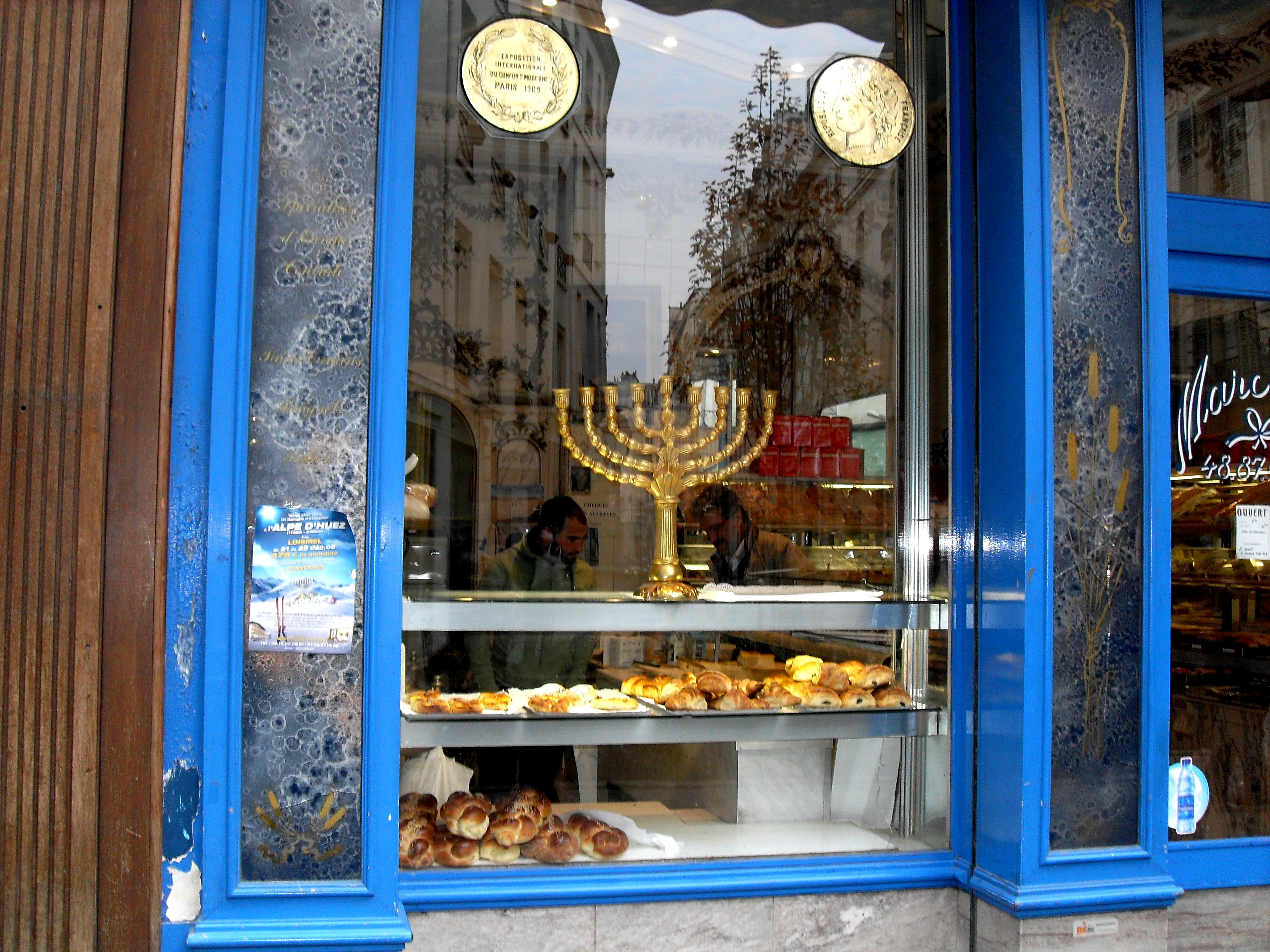 jewish bakery in the jewish quarter of Paris, called "Pletzl"